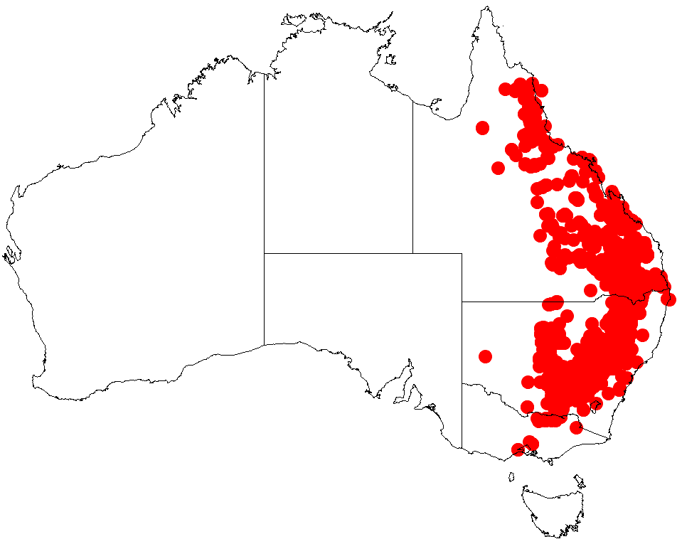 Acacia decora occurrence data from Australasian Virtual Herbarium downloaded from on 8 December 2018